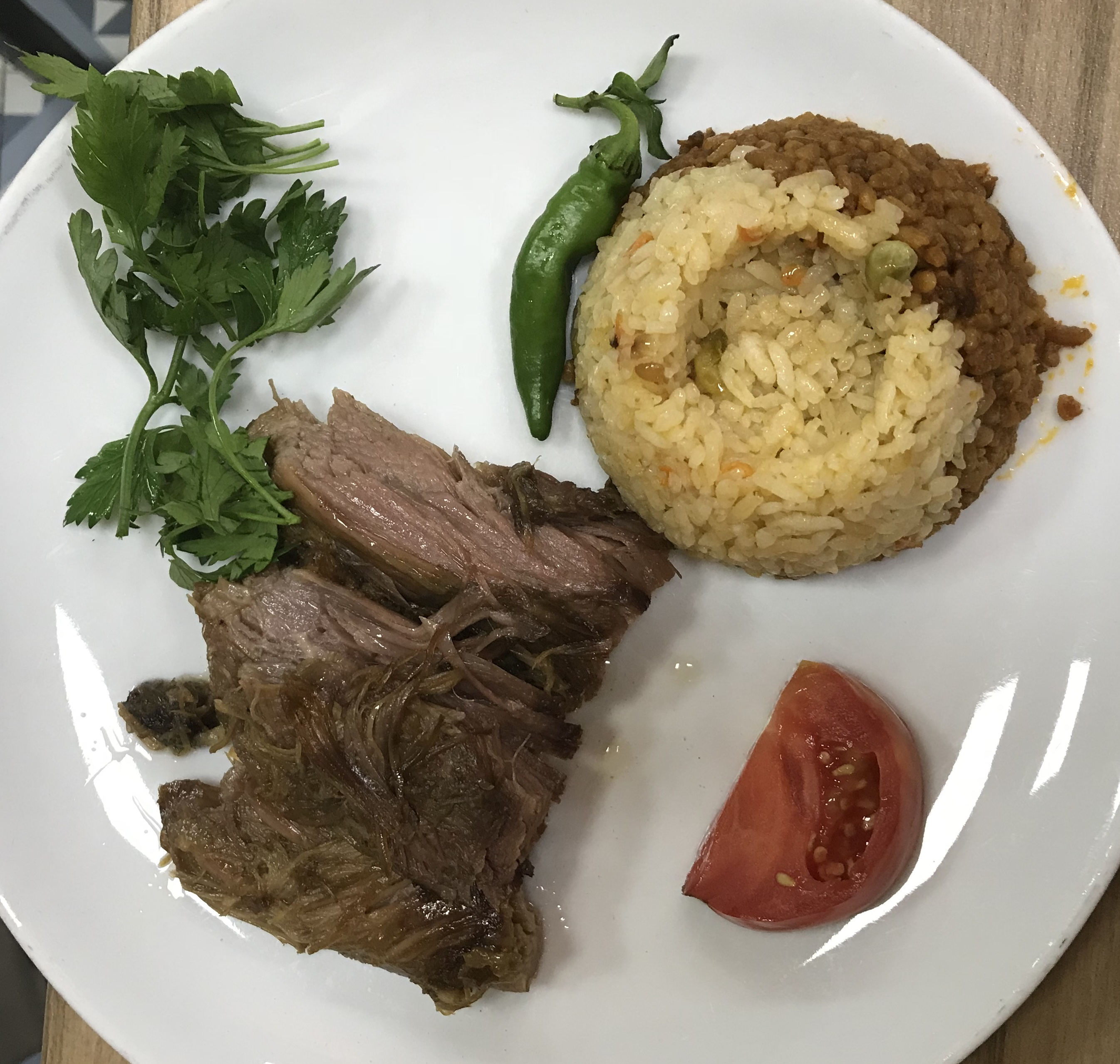 Roasted lamb shank served in the Restaurant Sinan Hacibaba in the downtown of Malatya in Turkey.